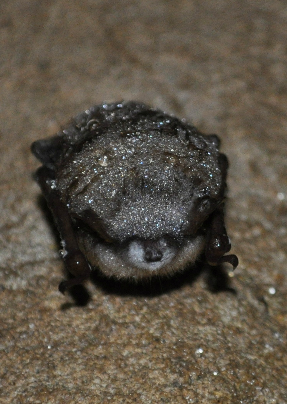 Torpid little brown bat (Myotis lucifugus) showing visible mycelia growth (white-nose syndrome) during a hibernaculum survey